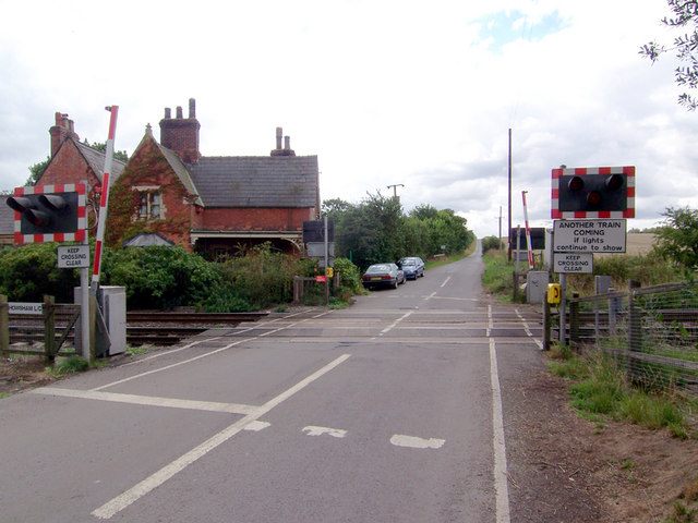 Howsham Level Crossing. The buildings to the left are the former station.